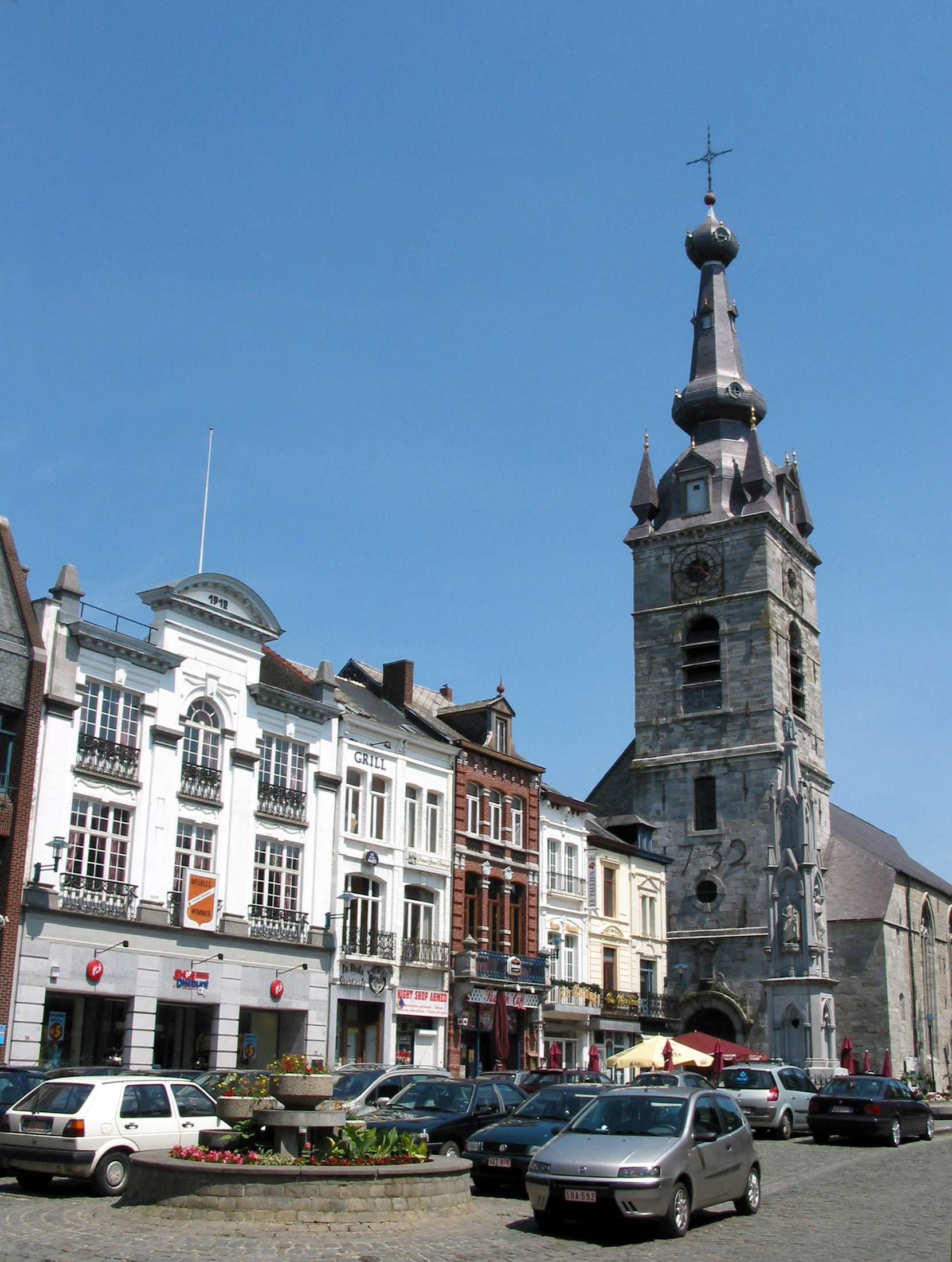 Chimay (Belgium), Grand’Place.